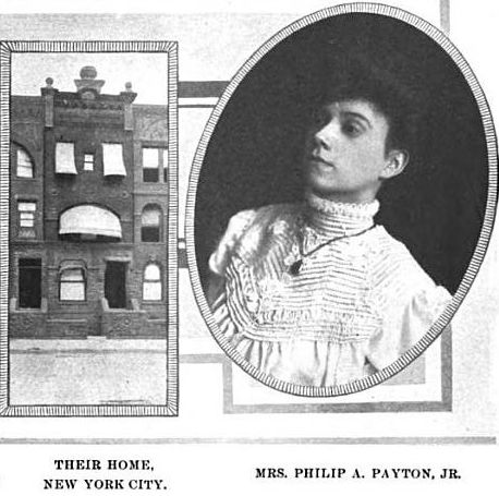 Maggie Payton, wife of Philip A. Payton Jr., the "father of Harlem", and 13 West 131st Street, the house where they lived starting in 1903.[1] Caption: Mrs. Philip A. Payton, Jr. Their home, New York City. Illustration from Chapter XIX, "Philip A. Payton, Jr., and the Afro-American Realty Company", between pages 200 and 201 of The Negro in Business, by Booker T. Washington, published 1907.